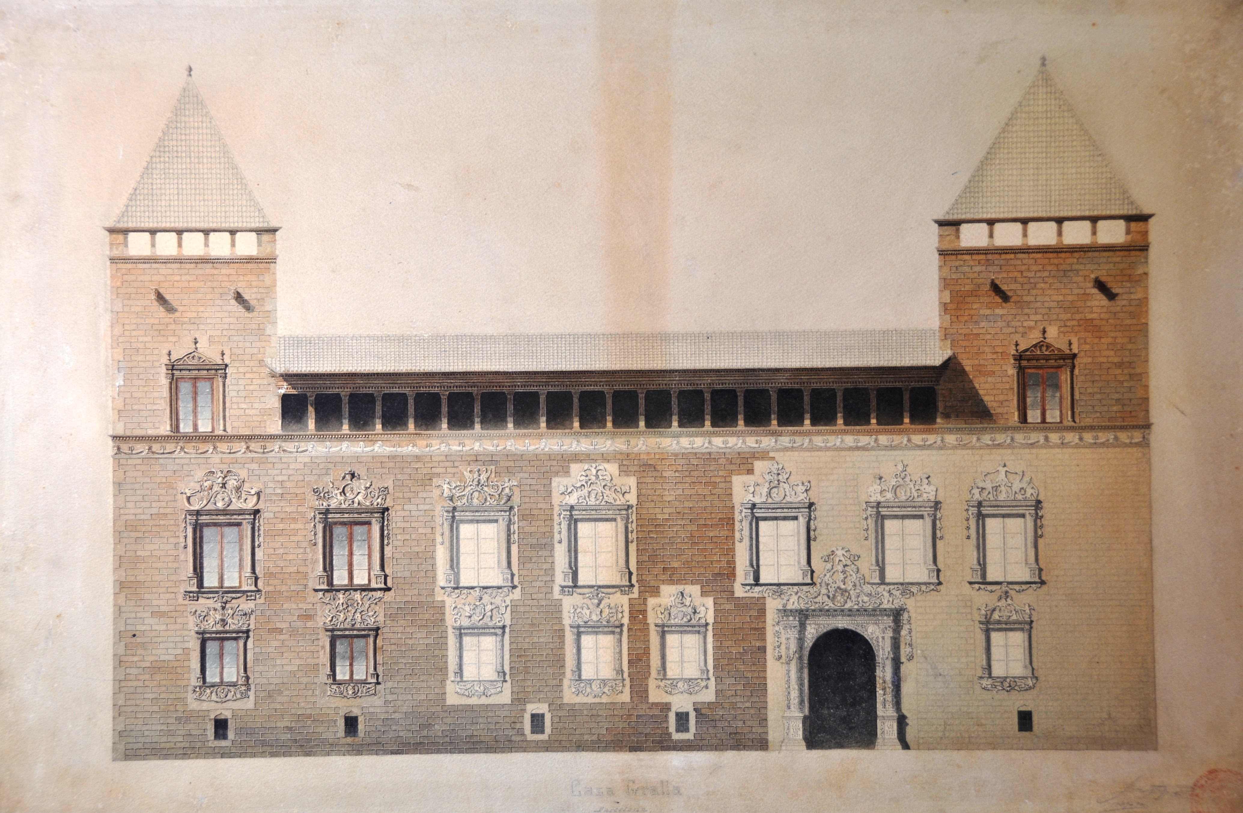 Drawing representing Casa Gralla (Joan Fatjó 1889-1890) MUHBA Barcelona City History Museum. Casa Gralla outstood among Barcelona builgins because its Renaissance ornaments. Was located in Portaferrissa street and demolished in 1856..